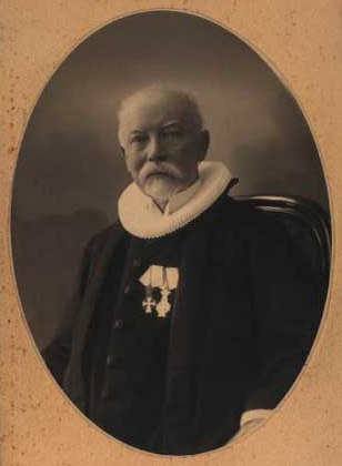 Harald Ostenfeld (1864-1934), Danish bishop